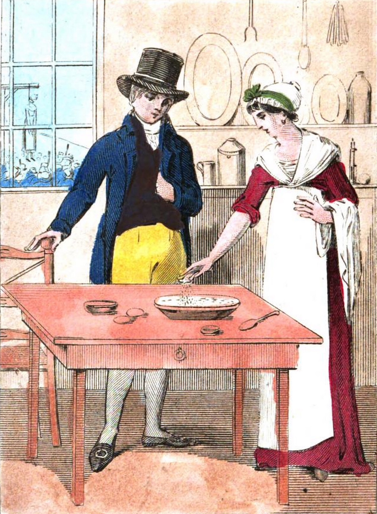 Original caption : Mrs Bateman mixes the Poison.